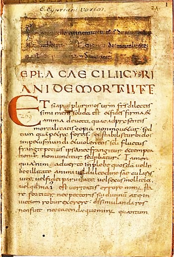 Manuscript page of treaties of Cyprian of Carthage (De Mortalitate, De patientia, De virginibus). France, ab. 850y. Later, the manuscript belonged to the Saint-Victor monastery in Paris, from which it was brought by Friedrich Lindenbrog (1573–1648); then placed it in the Gottorper Library, whose handwriting collection was transferred to the Royal Library in 1735